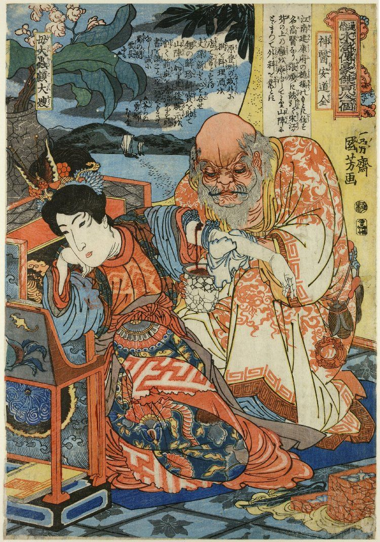 Divine Physician An Daoquan (安道全), surgeon, operating on female warrior Gu Dasao (顾大嫂).